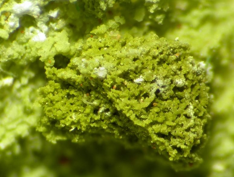 Chenevixite Locality: New Cobar Mine, Cobar, Cobar, Robinson County, New South Wales, Australia (Locality at ) Field of view 4 mm. Collected by Vic Cloete. Specimen and photo Leon Hupperichs.